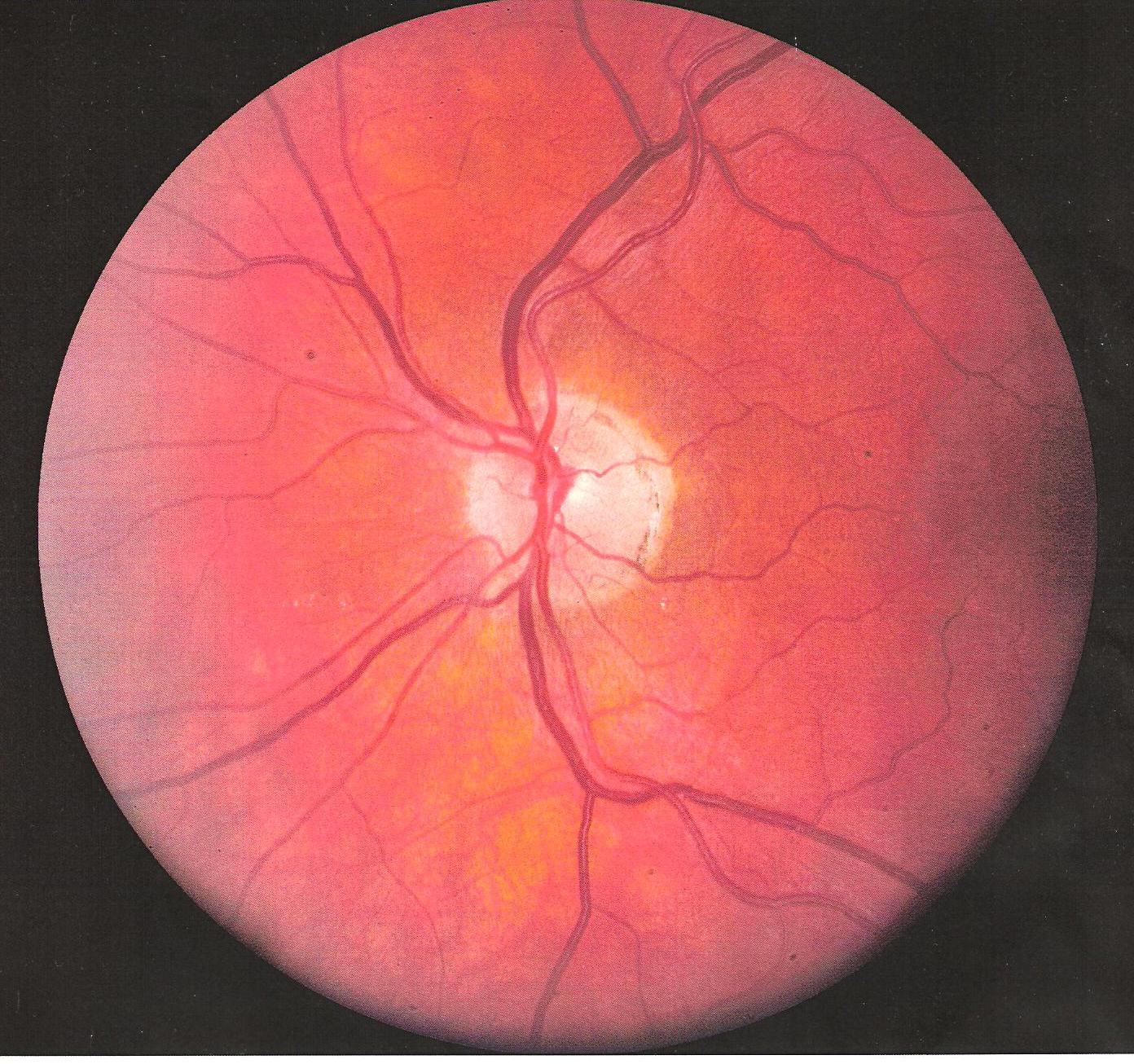 Eye vessles